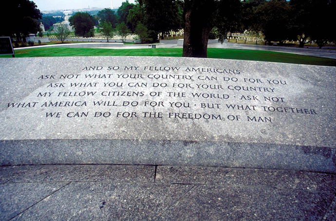 And so, my fellow Americans, ask not what your country can do for you; ask what you can do for your country.My fellow citizens of the world, ask not what America will do for you, but what together we can do for the freedom of man. Grave John F Kennedy, Arlington